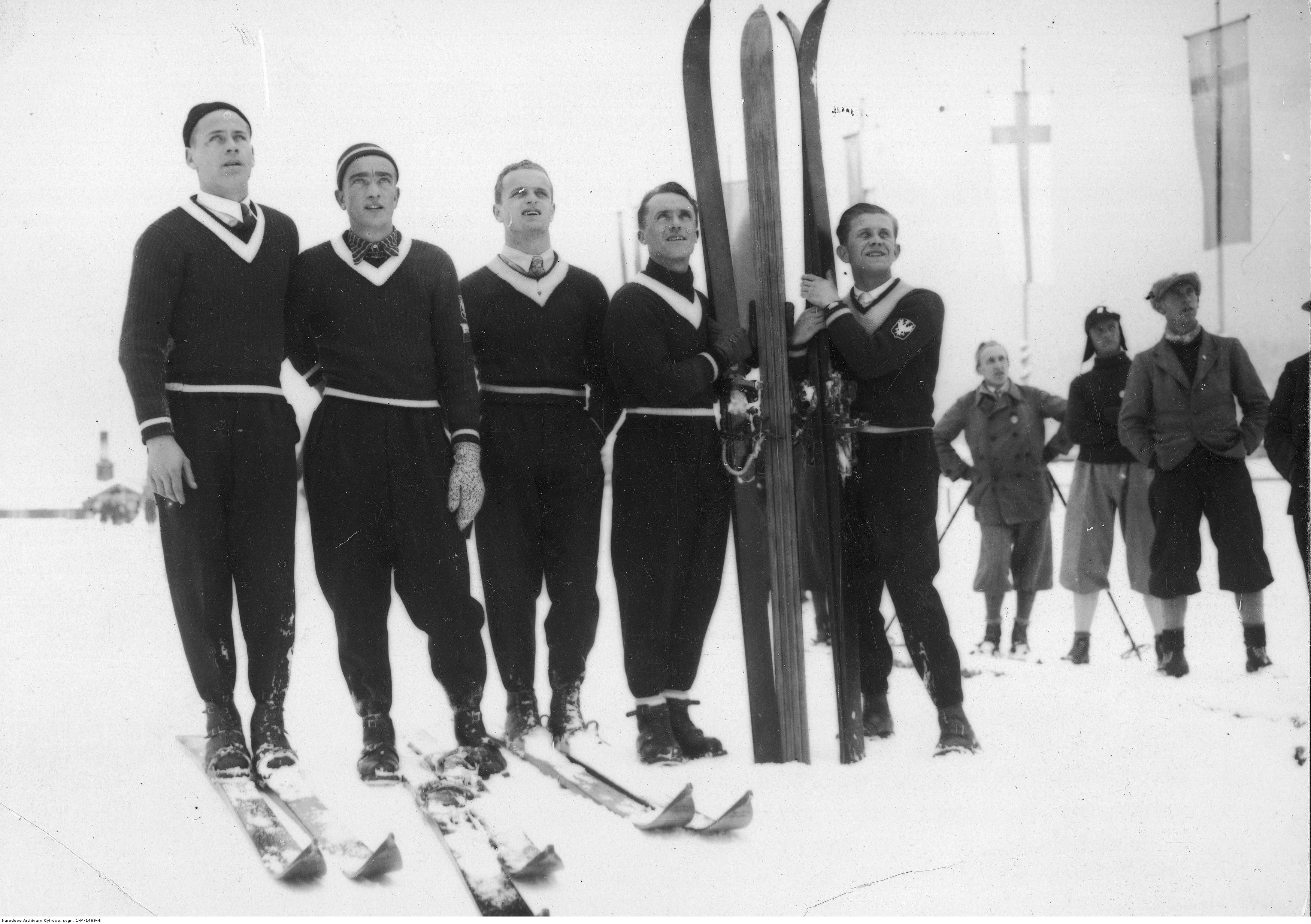 International ski competition in Garmisch-Partenkirchen. Polish skiers. From left: Stanisław Marusarz, Michał Górski, Marian Woyna-Orlewicz, Bronisław Czech and Izydor Gąsienica-Łuszczek. 1935 (Koncern Ilustrowany Kurier Codzienny - Illustration Archive)